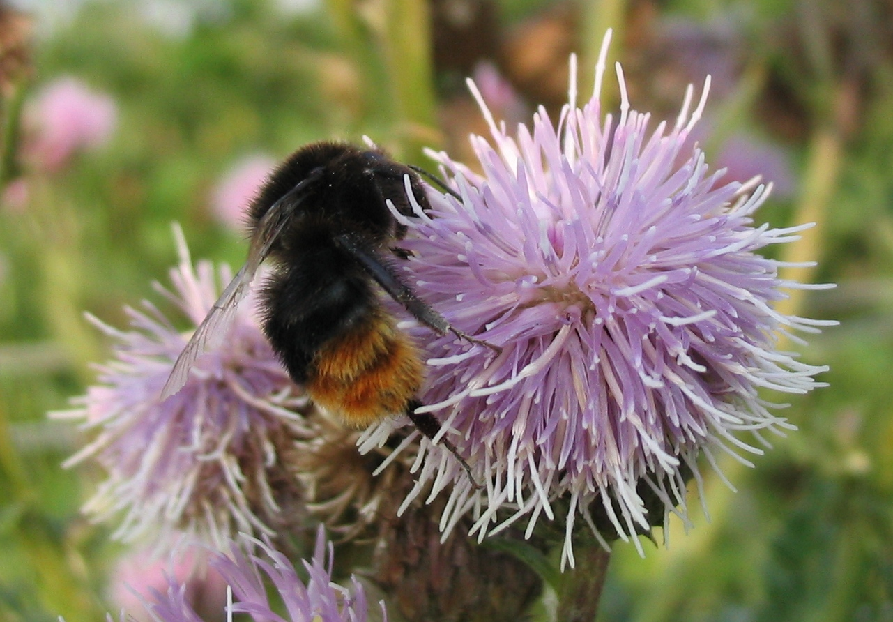 Bumblebee on a thistle near Lancaster University, UK. Note: this is not a honeybee. I believe it is one of the European bumblebee species, but I will leave that to someone with more knowledge of European species. -Nice pic though.Pollinator 02:50, Jan 2, 2005 (UTC)